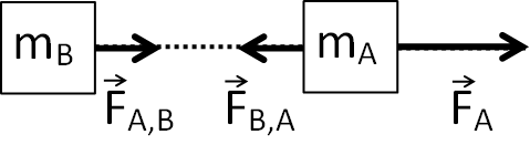 If the internal forces were not equal and opposite, Newton's second law would not apply for a net force applied to the net mass (m1+m2).